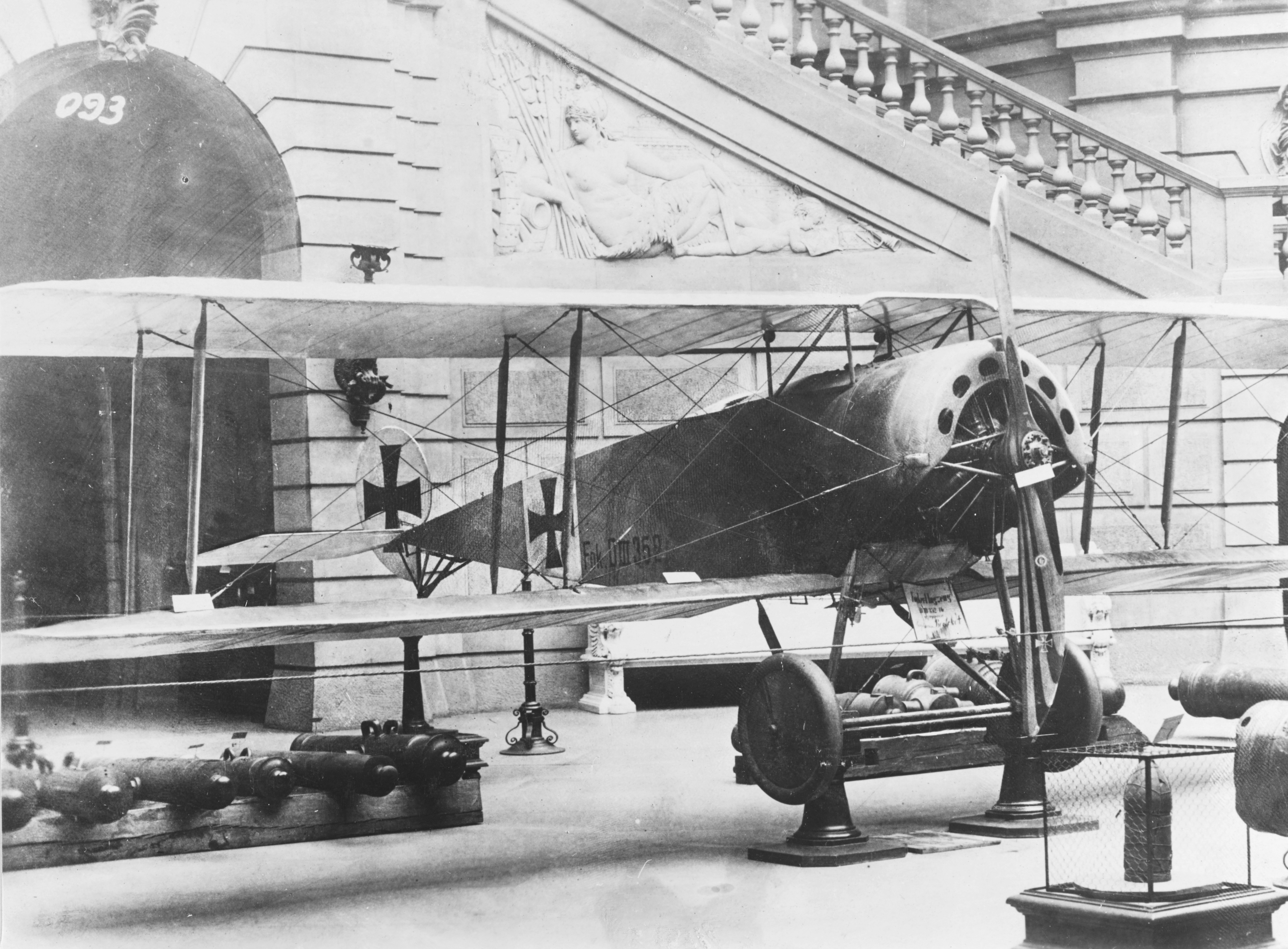 The German Fokker D.III (Wk.Nr. 352/16), flown by fighter ace Oswald Boelcke, on display at the Zeughaus museum in Berlin. The aircraft was destroyed by an Allied bombing raid in 1943.